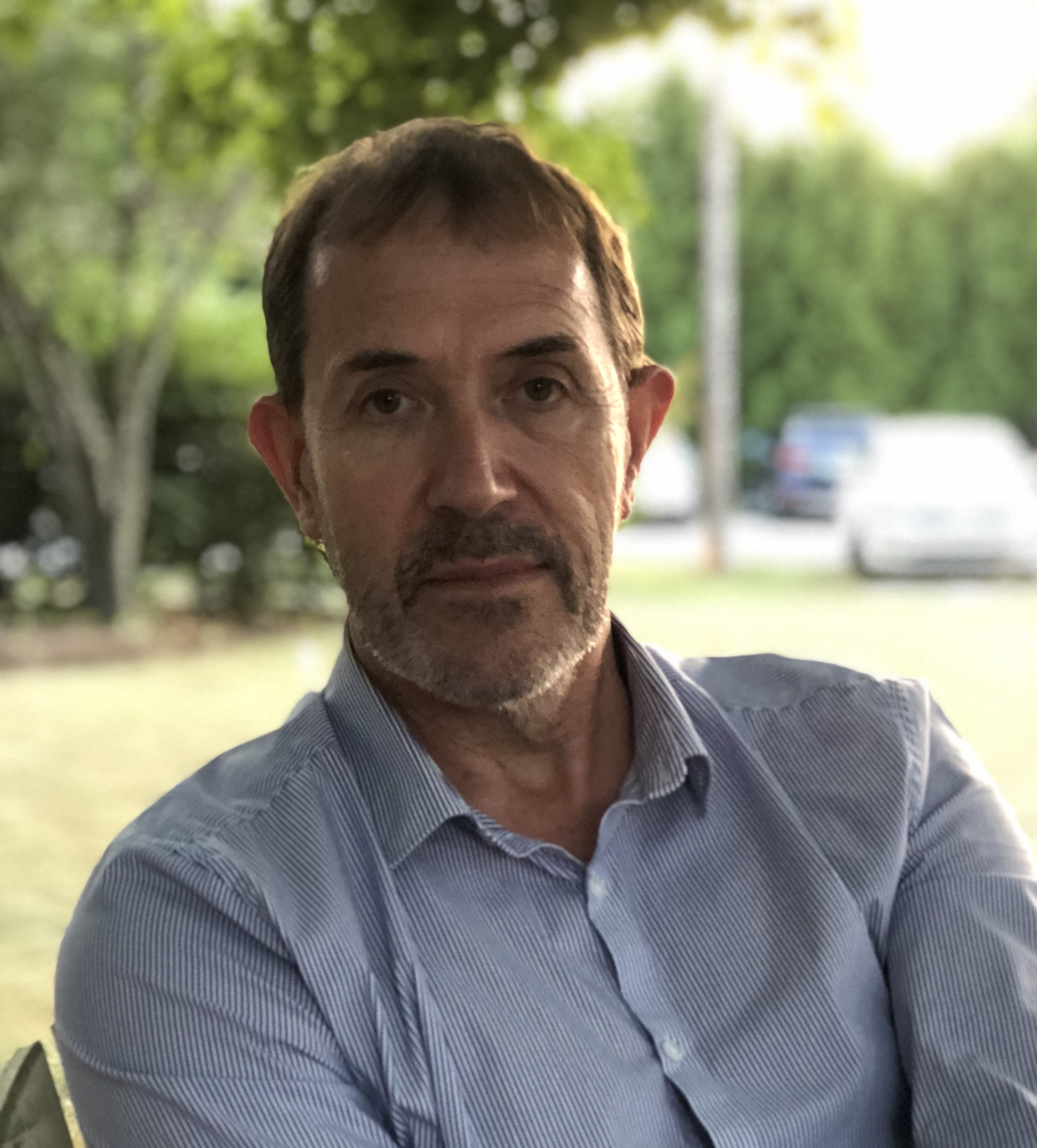 Picture of British ballet and theatre choreographer Michael Pink in 2018.